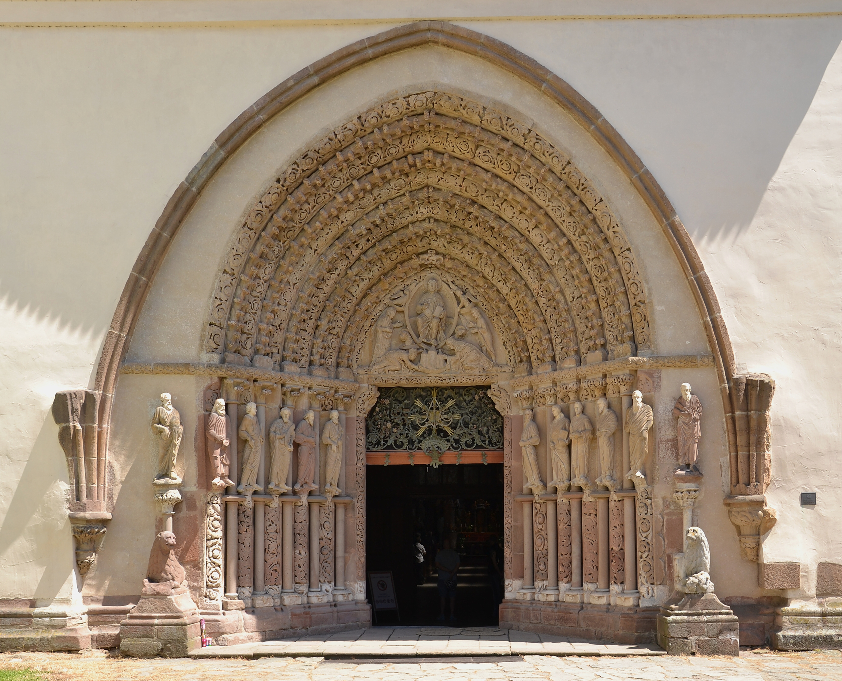 Portal of Church of the Assumption of the Virgin Mary, Předklášteří - Moravia